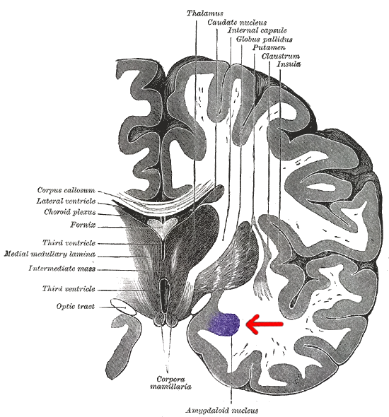 coronal section of human brain. Amygdala is coloured in purple.